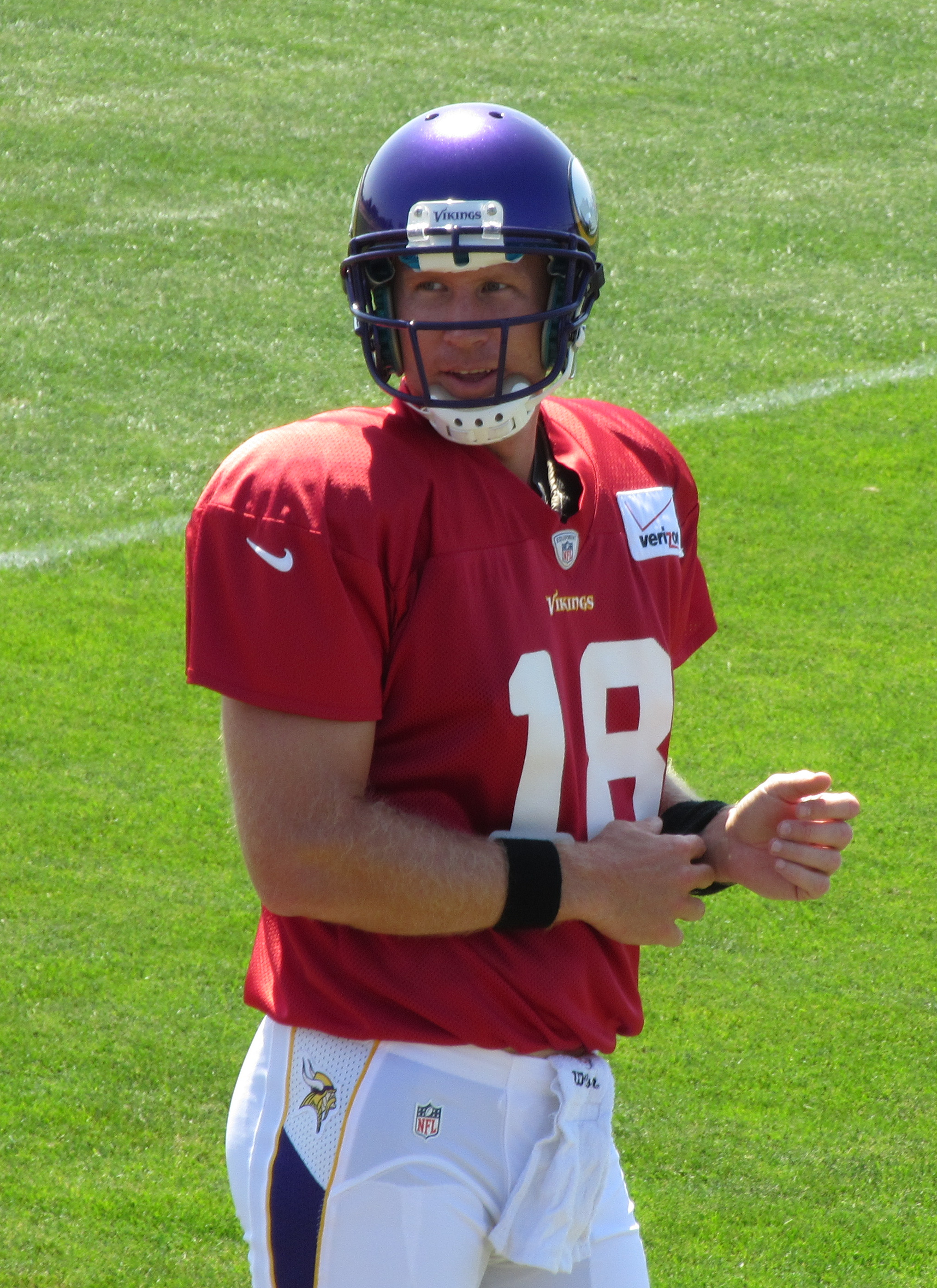 Sage Rosenfels at the 2012 Minnesota Vikings Training Camp.